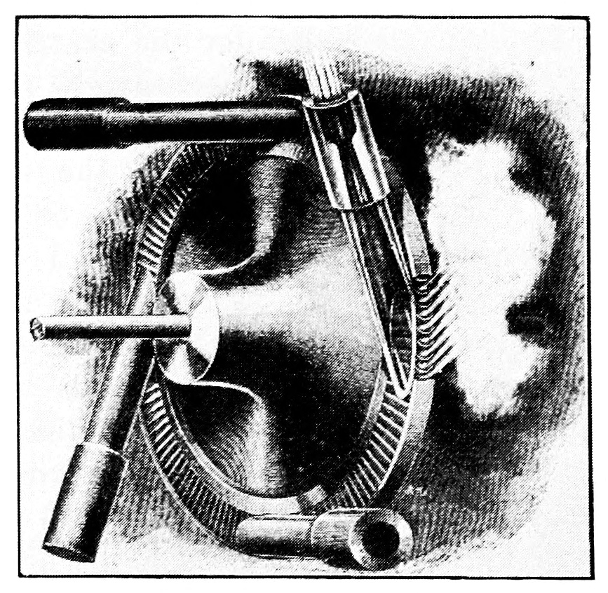 The Steam Turbine, the 1911 Rede Lecture: Figure 4: " Dr de Laval's Turbine".